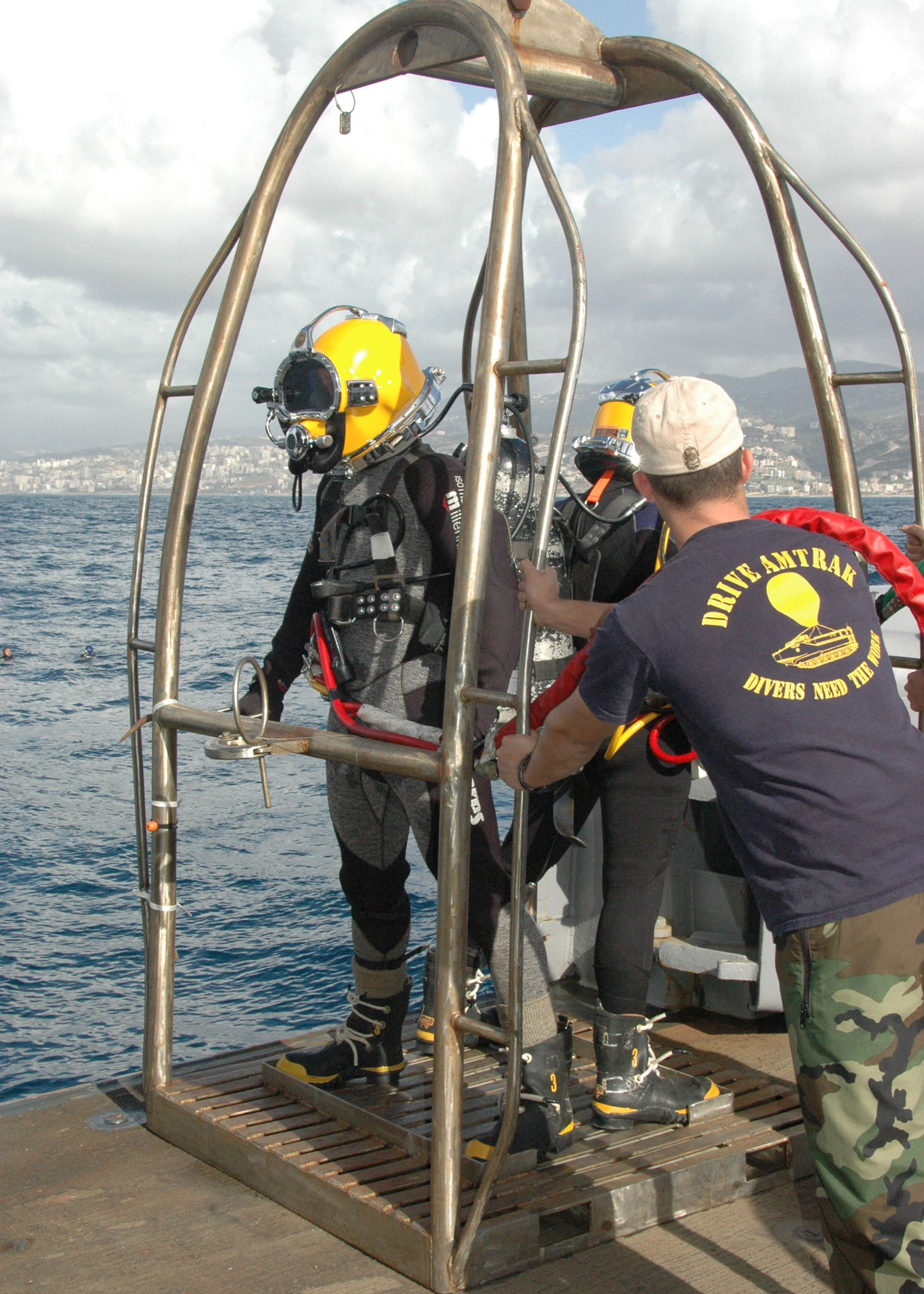 MEDITERRANEAN SEA (Feb. 9, 2010) Navy Diver 2nd Class Todd Walsh and Navy Diver 2nd Class Matthew Trautman, both assigned to Mobile Diving and Salvage Unit (MDSU) 2 embarked aboard the Military Sealift Command rescue and salvage ship USNS Grapple (T-ARS 53), prepare to dive into the Mediterranean Sea off the coast of Lebanon. Grapple is assisting the Lebanese Armed Forces during recovery operations of Ethiopian Airlines flight 409. (U.S. Navy photo by Mass Communication Specialist 2nd Class William Pittman/Released)